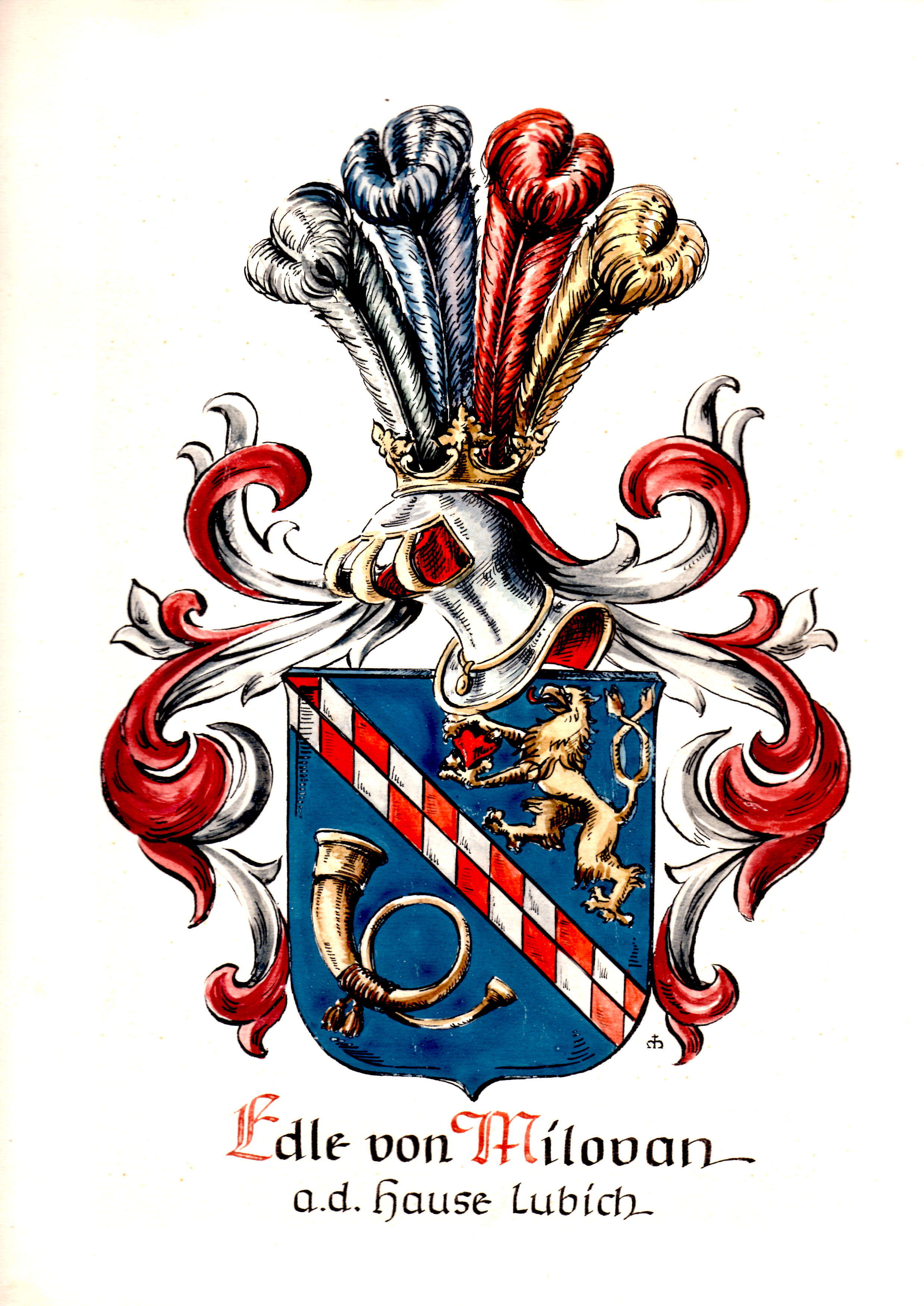 Wappen der Familie Edle von Milovan Haus Lubich